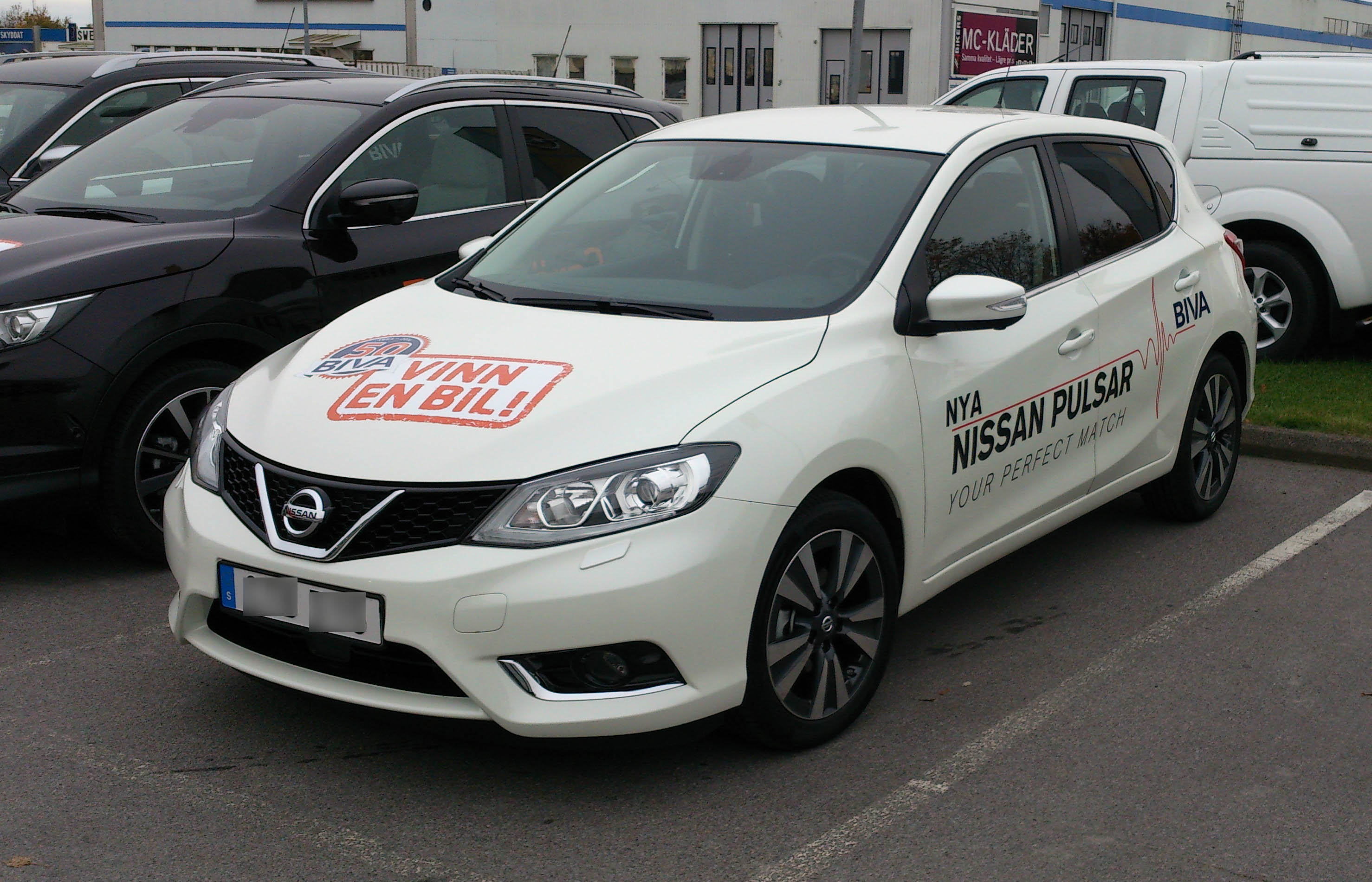 2015 Nissan Pulsar (C13)